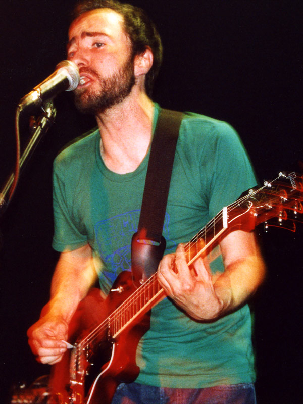 James Mercer (The Shins) at Gebäude 9, Cologne.